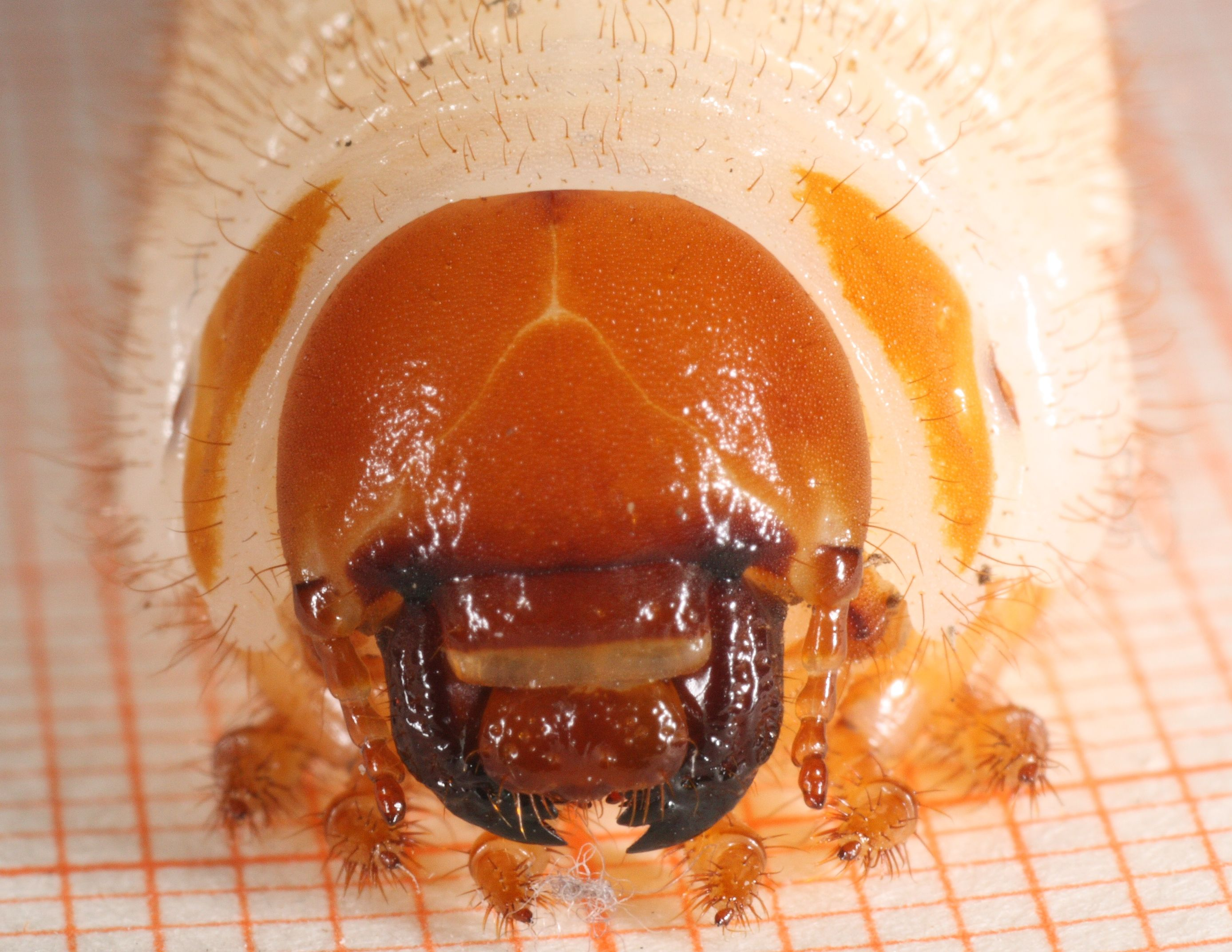 Head of fully grown larvae of Hermit beetle Osmoderma eremita